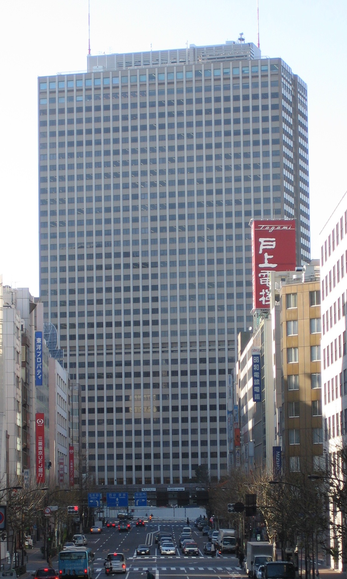 Kasumigaseki Building - Former headquarters of All Nippon Airways, Mitsui Chemicals, and Nippon Cargo Airlines